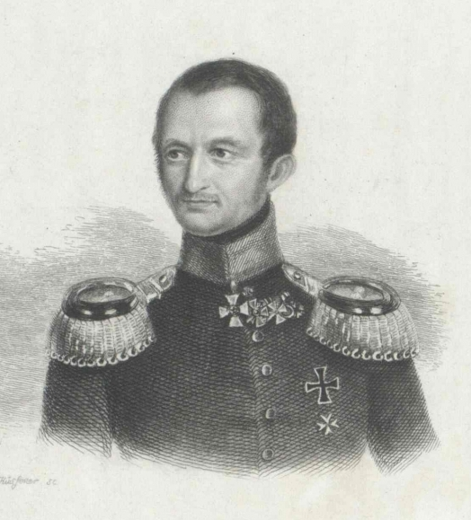 General Bonin of the Schleswig Holstein forces during the First Schleswig War.